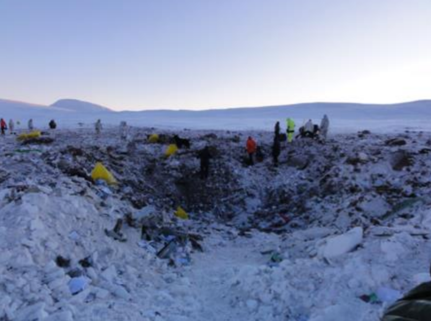 With the exception of the SHK logo, and photos and graphics to which a third party holds copyright, this publication is licensed under a Creative Commons Attribution 2.5 Sweden license. This means that it is allowed to copy, distribute and adapt this publication provided that you attribute the work. The SHK preference is that you attribute this publication using the following wording: “Source: Swedish Accident Investigation Authority”.